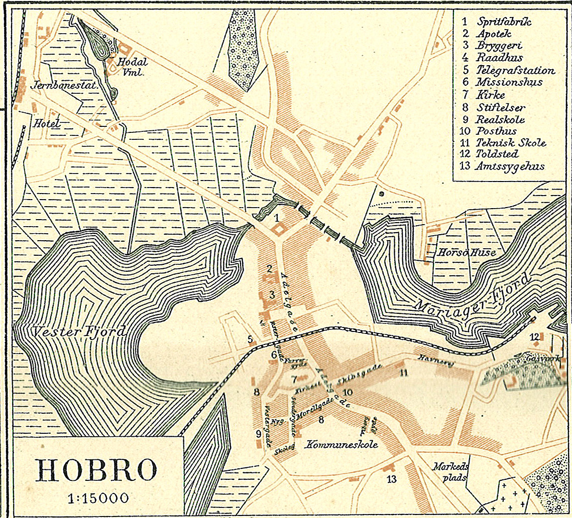 Map of Hobro in Randers County in Denmark